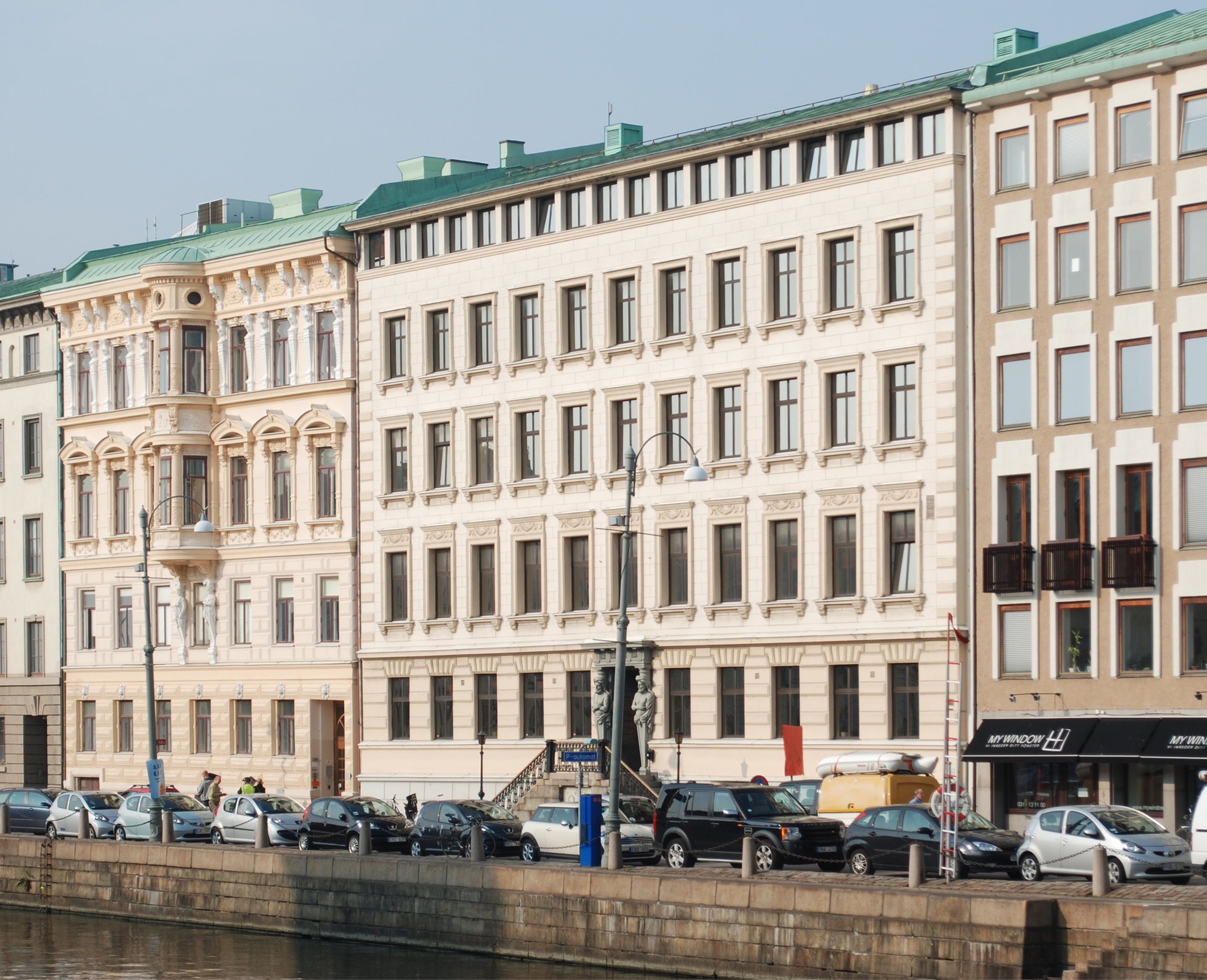 Thamska huset, Norra hamngatan 6, Göteborg.